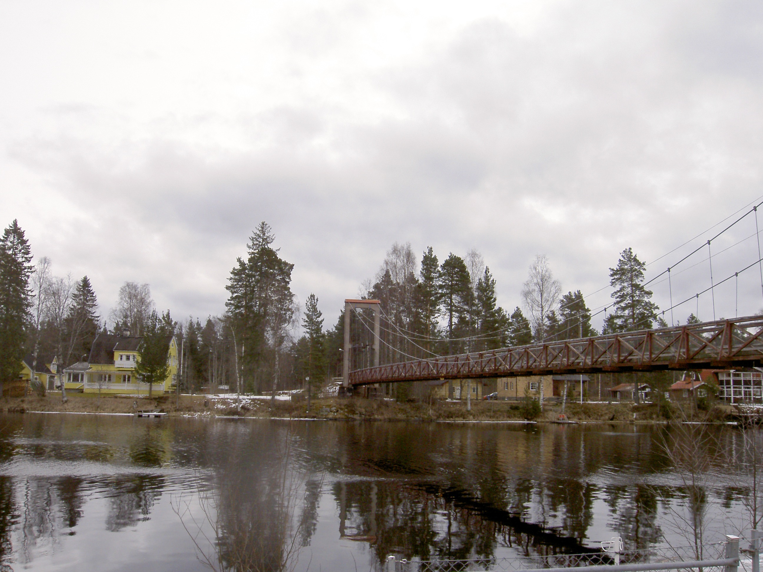 Section of Västerdal river in Vansbro, Dalecarlia, Sweden.